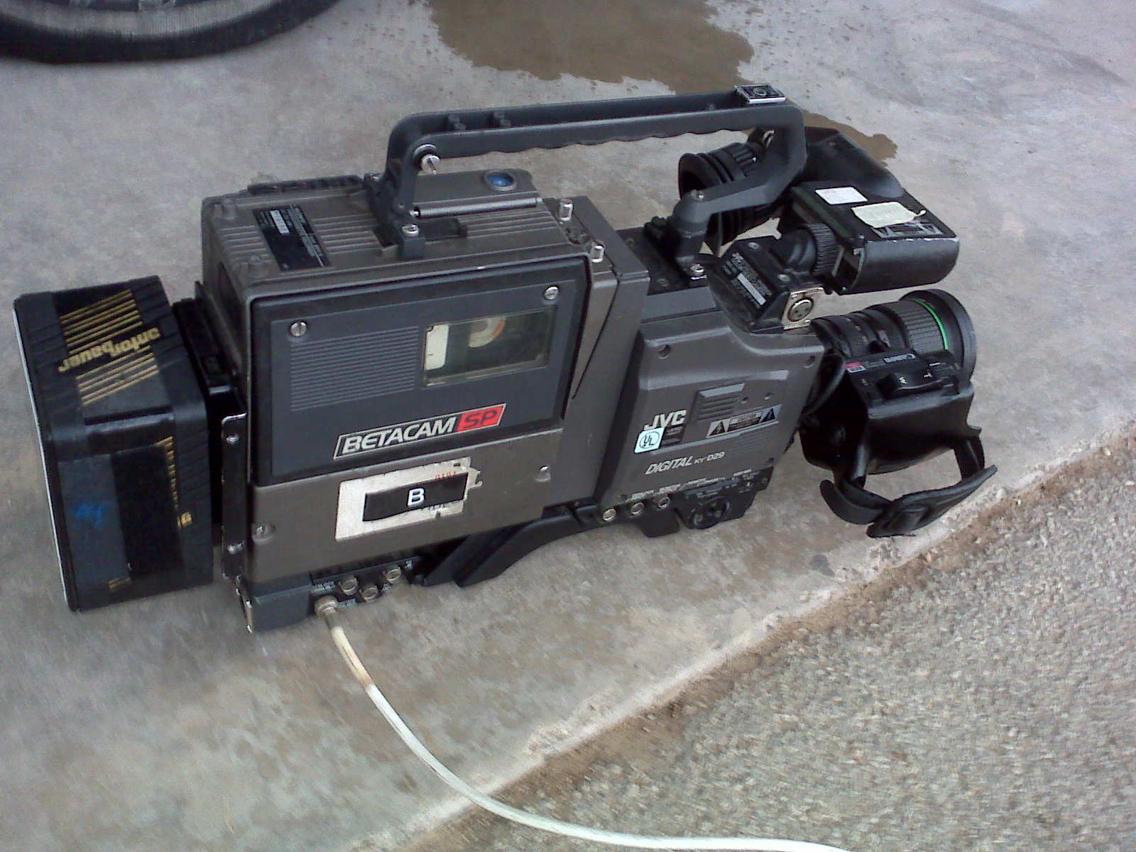 A Sony BVV-5 BetacamSP VTR, docked to a JVC KY-D29 digital camera head, at Nexstar Broadcasting's KTAB-TV/KRBC-TV in Abilene, Texas.